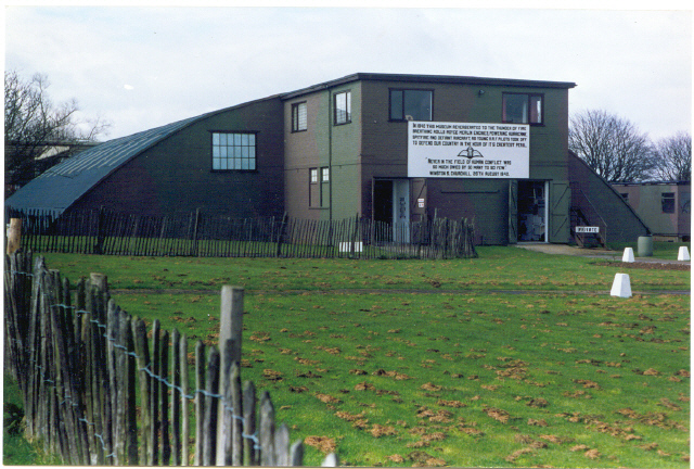 Hawkinge. More of the (original?) display buildings.